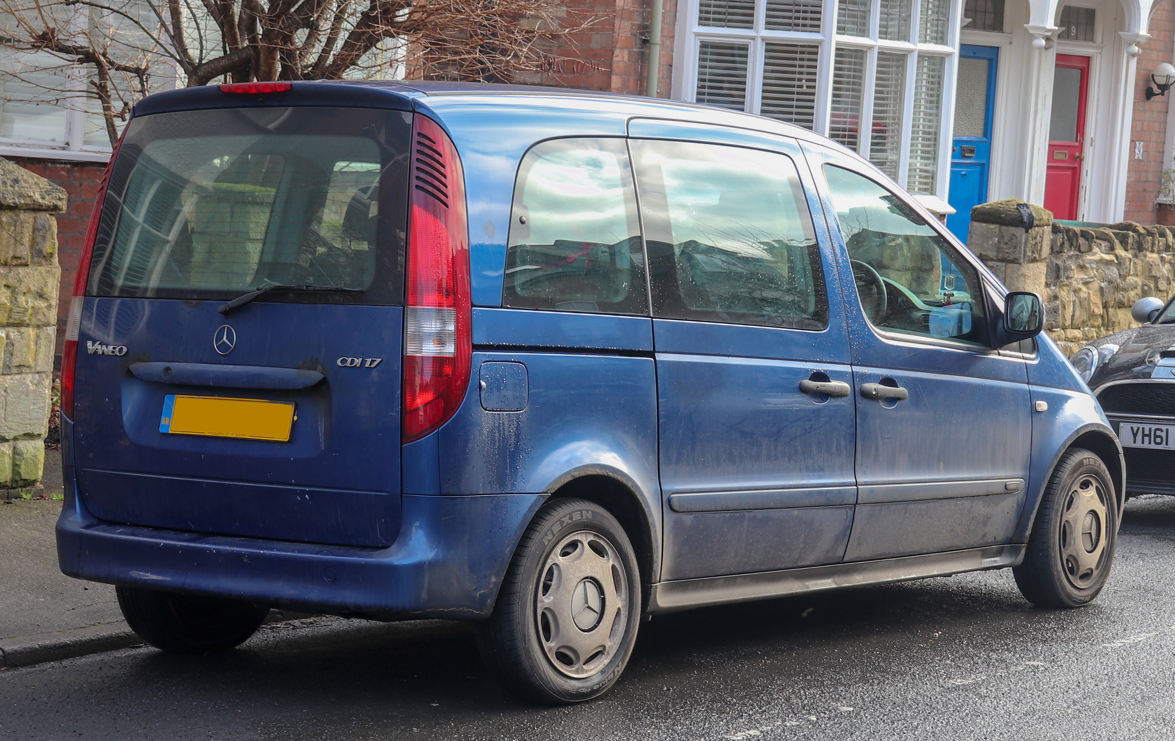 2004 Mercedes-Benz Vaneo CDi Trend 1.7 Rear Taken in Leamington Spa